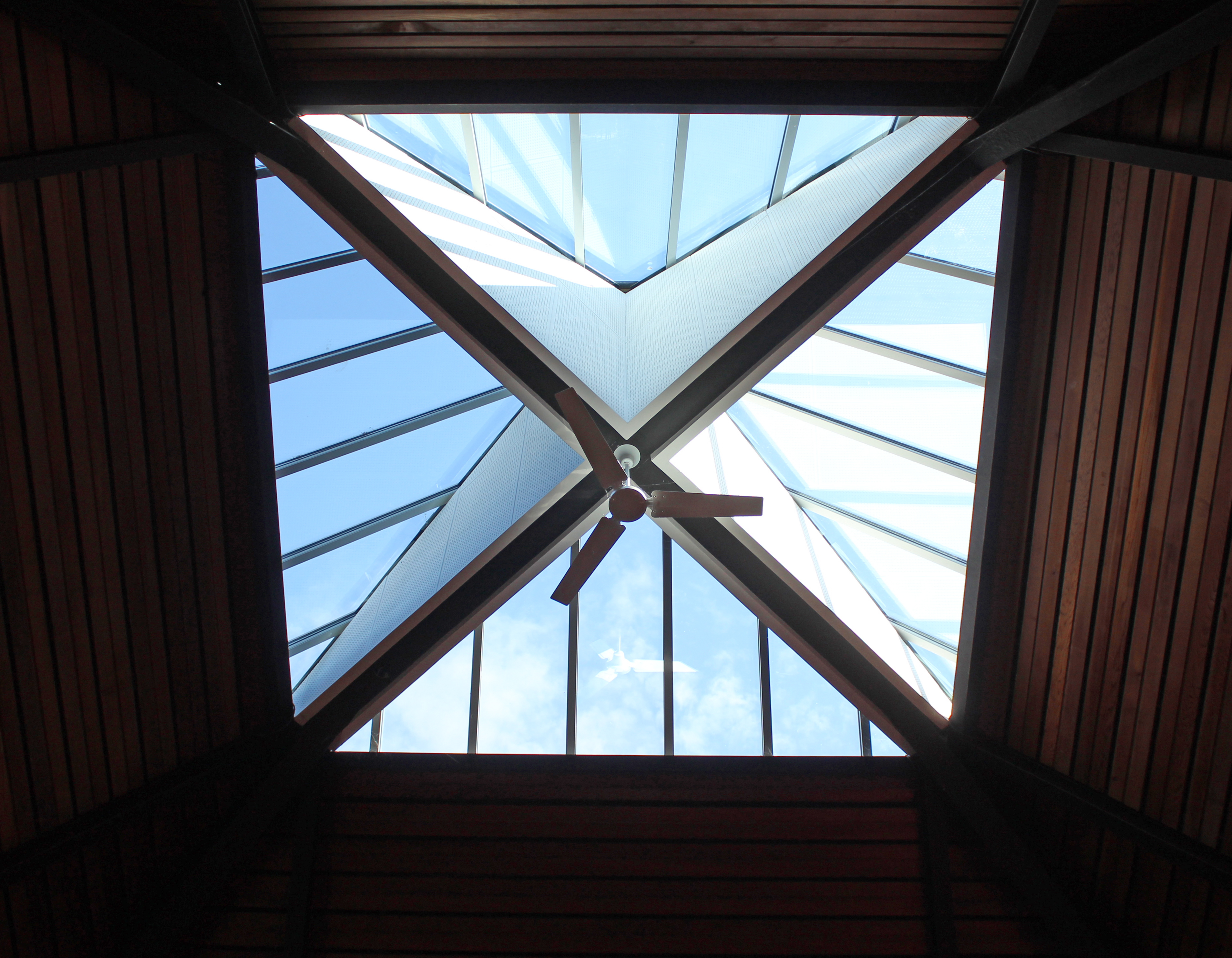 View up into the pyramidal lantern of Heswall United Reformed church.